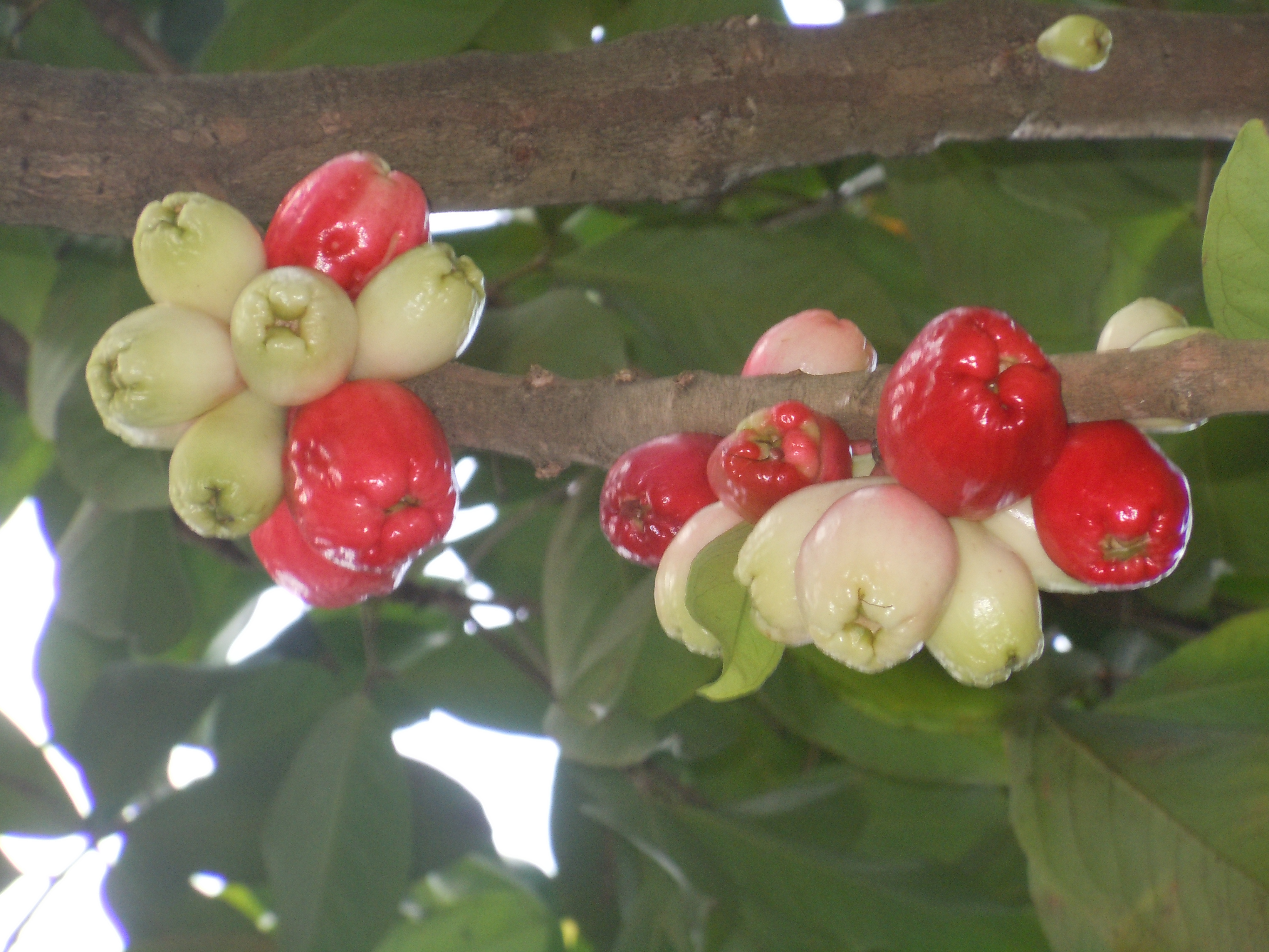 The Fruits in full season in Trinidad and tobago